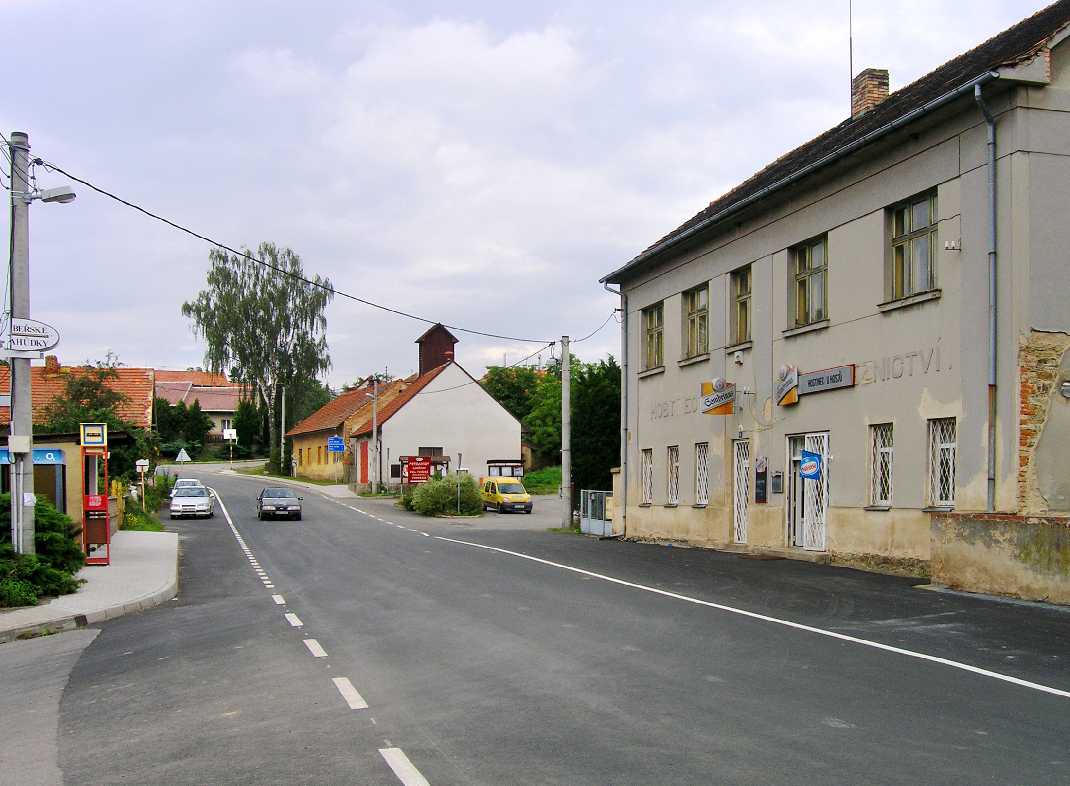 Central part of Libeř, Czech Republic